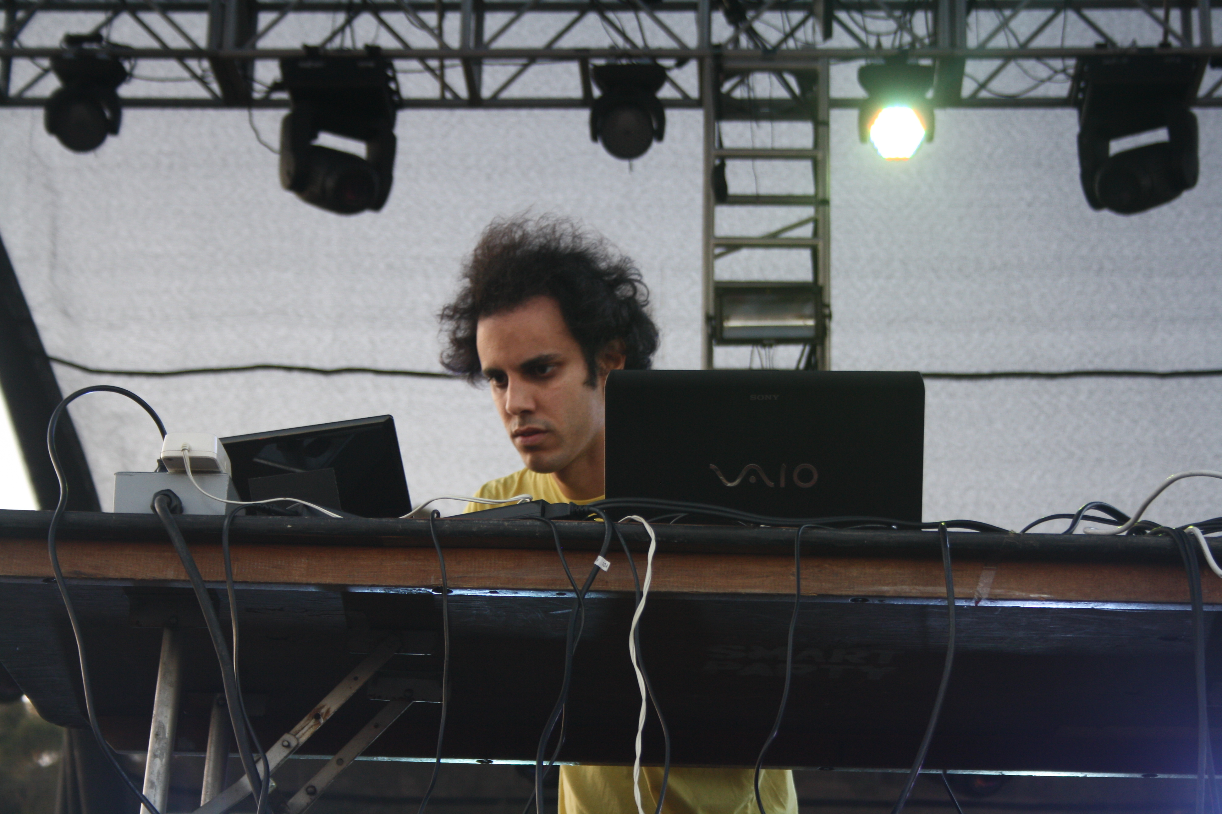 Four Tet (Kieran Hebden) performing at FYF Fest 2011 on September 3, 2011